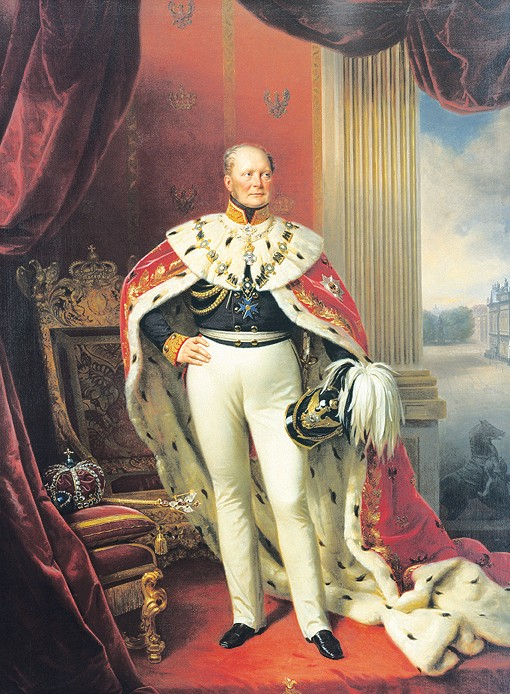 Portrait of Frederick William IV of Prussia (1795-1861)